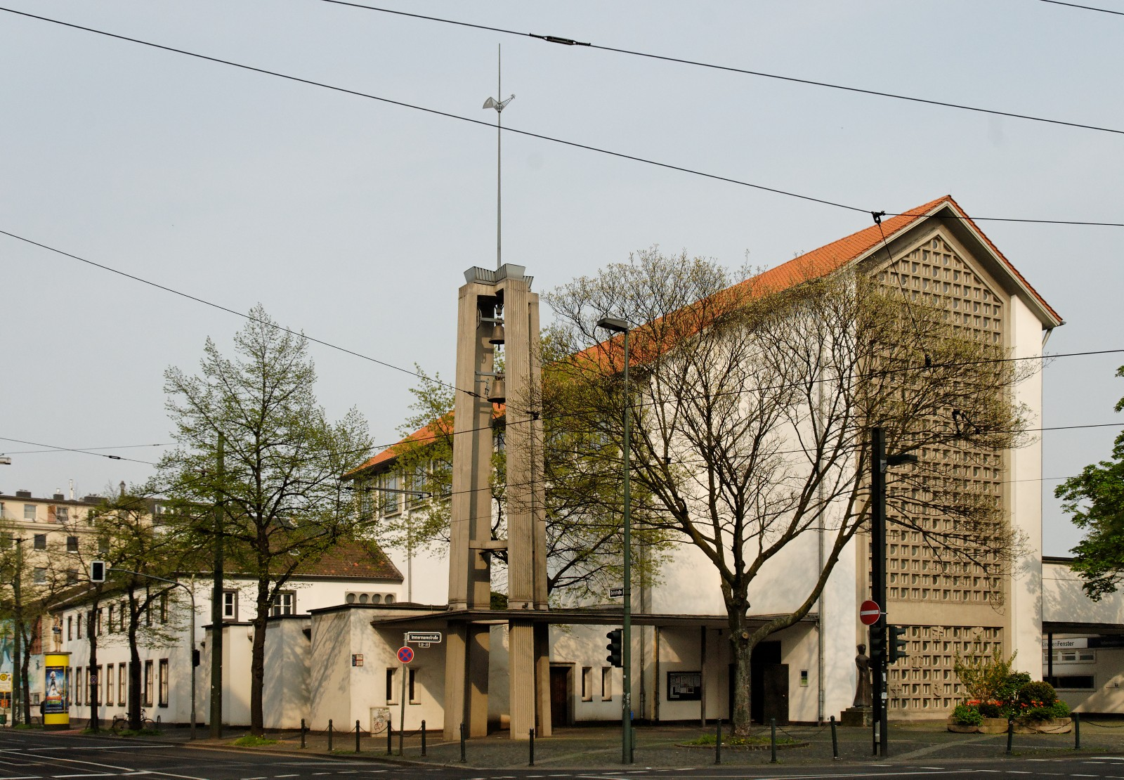 Franziskaner Church in Düsseldorf-Stadtmitte, Germany